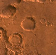 PIA00179: MC-19 Margaritifer Sinus Region Mars digital-image mosaic merged with color of the MC-19 quadrangle, Margaritifer Sinus region of Mars. Heavily cratered highlands, which dominate the Margaritifer Sinus quadrangle, are marked by large expanses of chaotic terrain. In the northwestern part, the major rift zone of Valles Marineris connects with a broad canyon filled with chaotic terrain. Latitude range -30 to 0, longitude range 0 to 45 degrees.